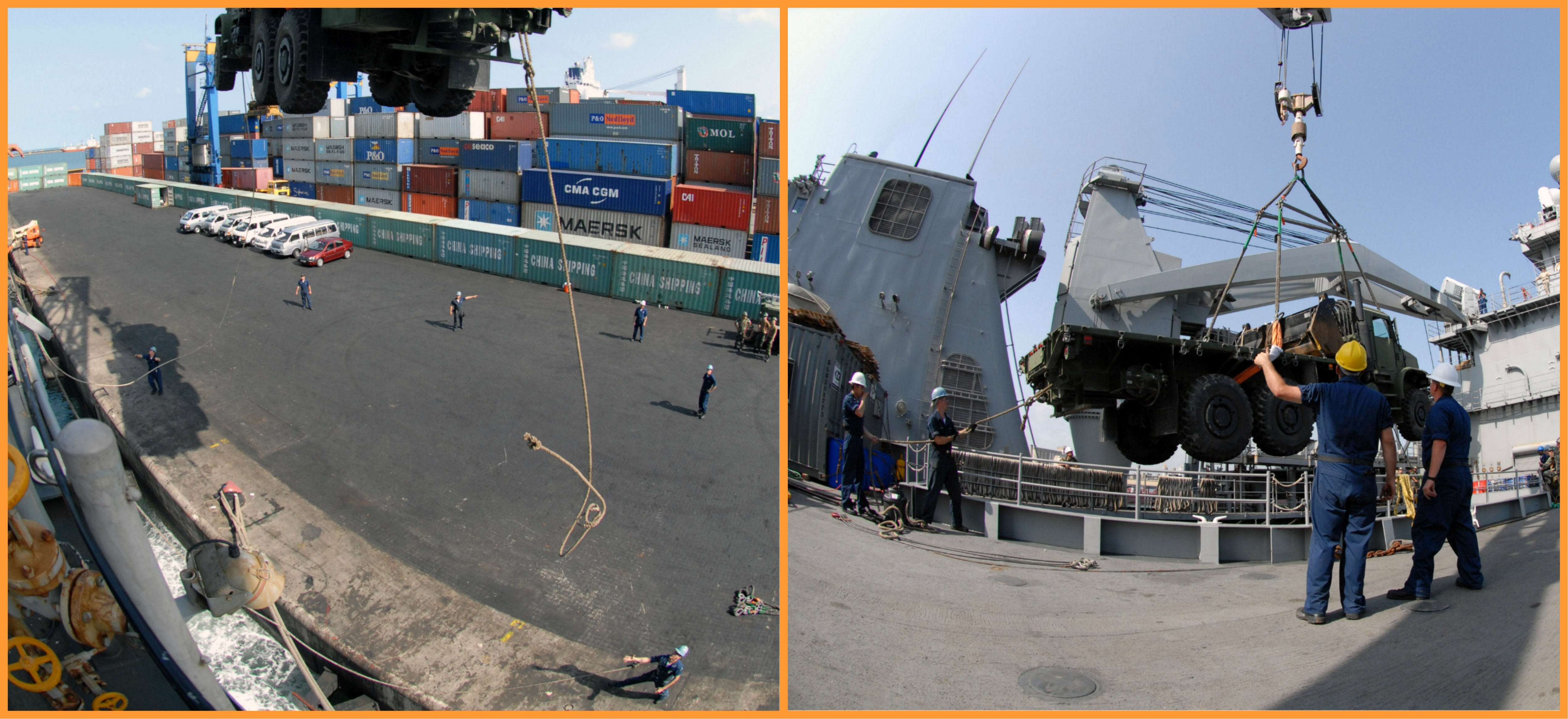 Tema Harbour in Greater Accra− Container ships and Merchant ships being loaded and unloaded at Intermodal freight transport of Tema Harbour: Intermodal container Terminals at Tema Harbour (1) Container ships and Merchant ships being loaded and unloaded at Tema Harbour (1) Created using external technological application with technological software application.